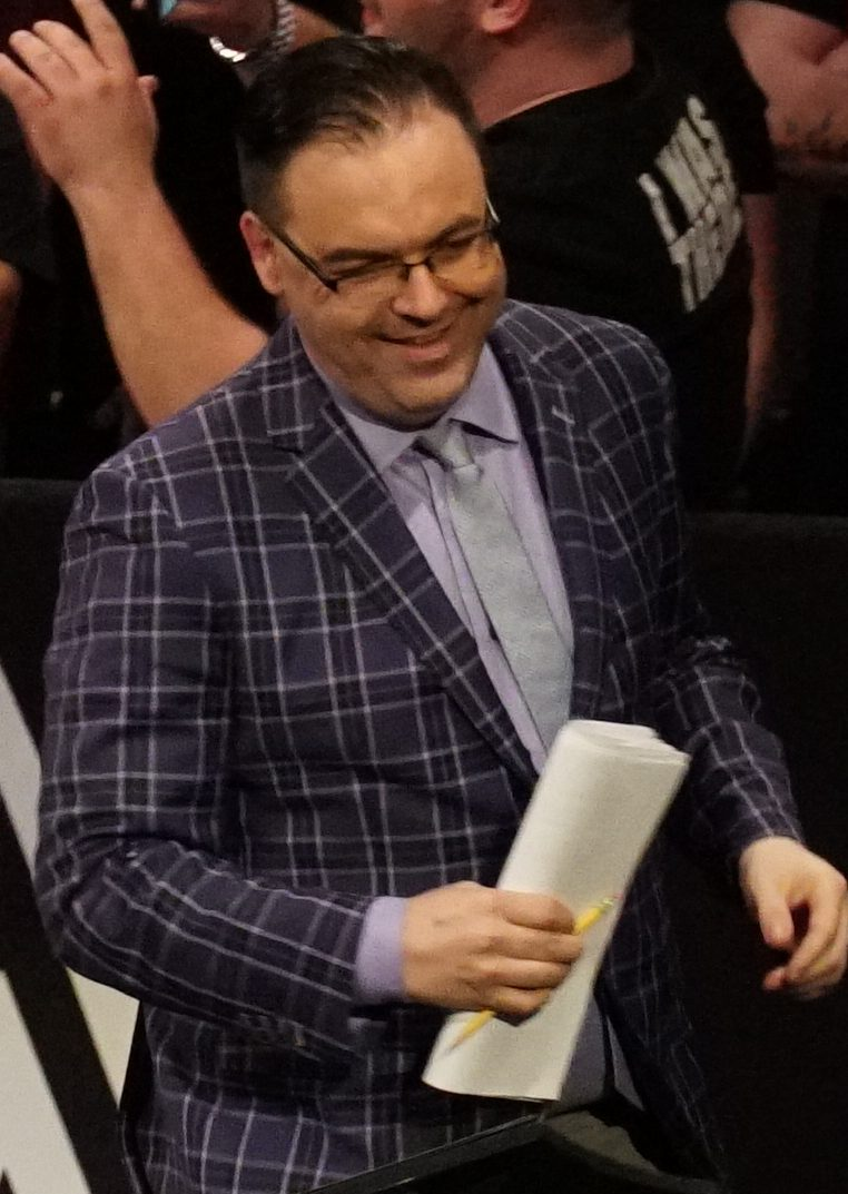 NOLA 2018 - WWE NXT Takeover - New Orleans NXT TakeOver: New Orleans was a professional wrestling show and WWE Network event in the NXT TakeOver series that took place on April 7, 2018, at the Smoothie King Center in New Orleans, Louisiana. The event was produced by WWE for its NXT brand and was streamed live on the WWE Network. Five matches were contested at the event. In the main event, Johnny Gargano defeated Tommaso Ciampa in an unsanctioned match and was reinstated to NXT. On the undercard, Aleister Black defeated Andrade 'Cien' Almas to win the NXT Championship, Shayna Baszler defeated Ember Moon to capture the NXT Women's Championship, and Adam Cole defeated EC3, Killian Dain, Lars Sullivan, Ricochet and Velveteen Dream in a six-man ladder match to win the inaugural NXT North American Championship. The event was widely lauded by wrestling fans and critics and the NXT North American Championship match and the unsanctioned match between Gargano and Ciampa both received a five star rating by wrestling journalist Dave Meltzer. ( Deux semaines a Nola pour la ville et pour WWE Wrestlemania XXXIV Two weeks Nola for the city and for WWE Wrestlemania XXXIV )